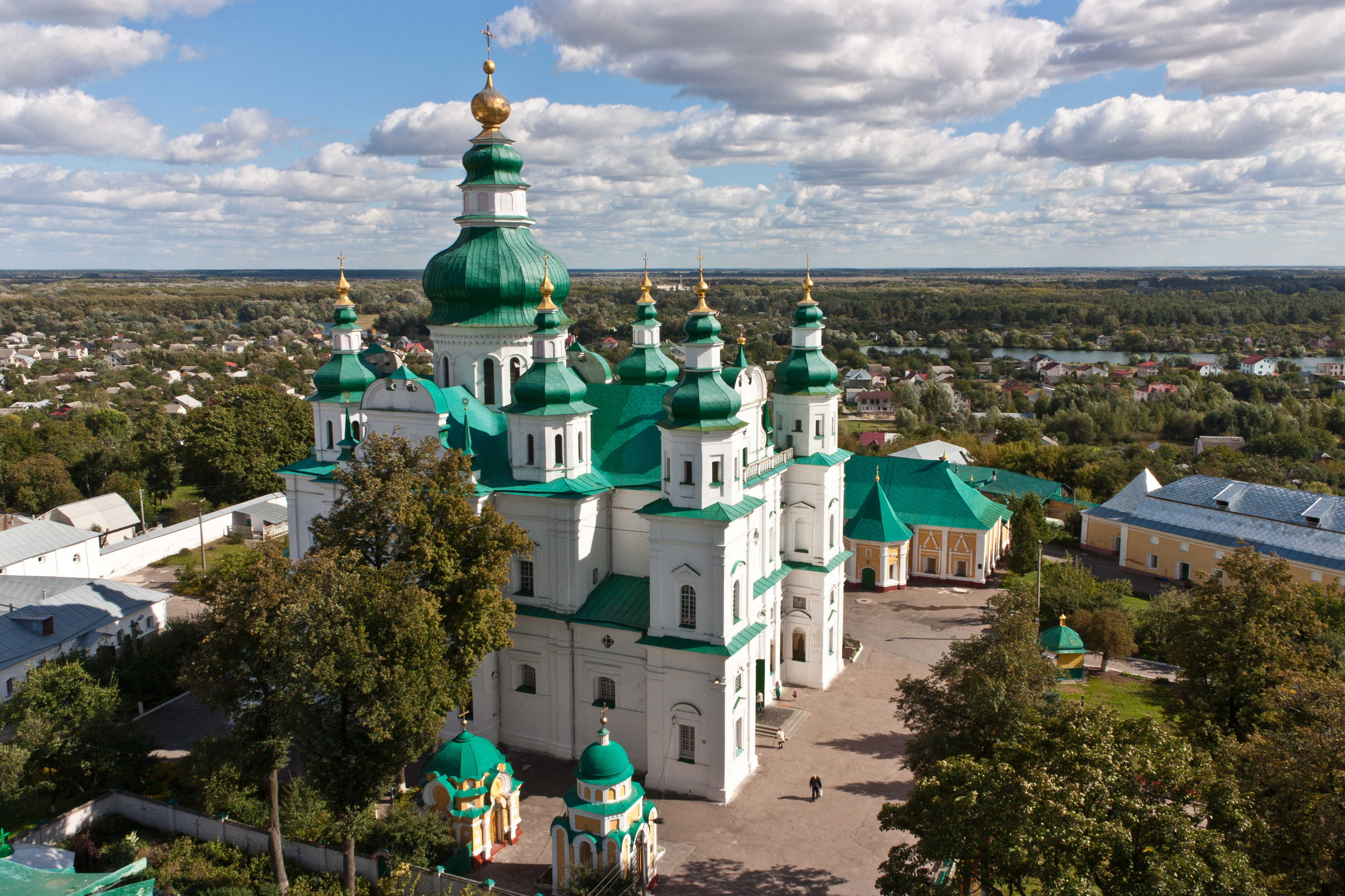 Trinity Monastery in Chernihiv. View from the bell-tower.